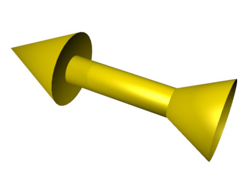 tuning cone for organ pipes, picture rotated